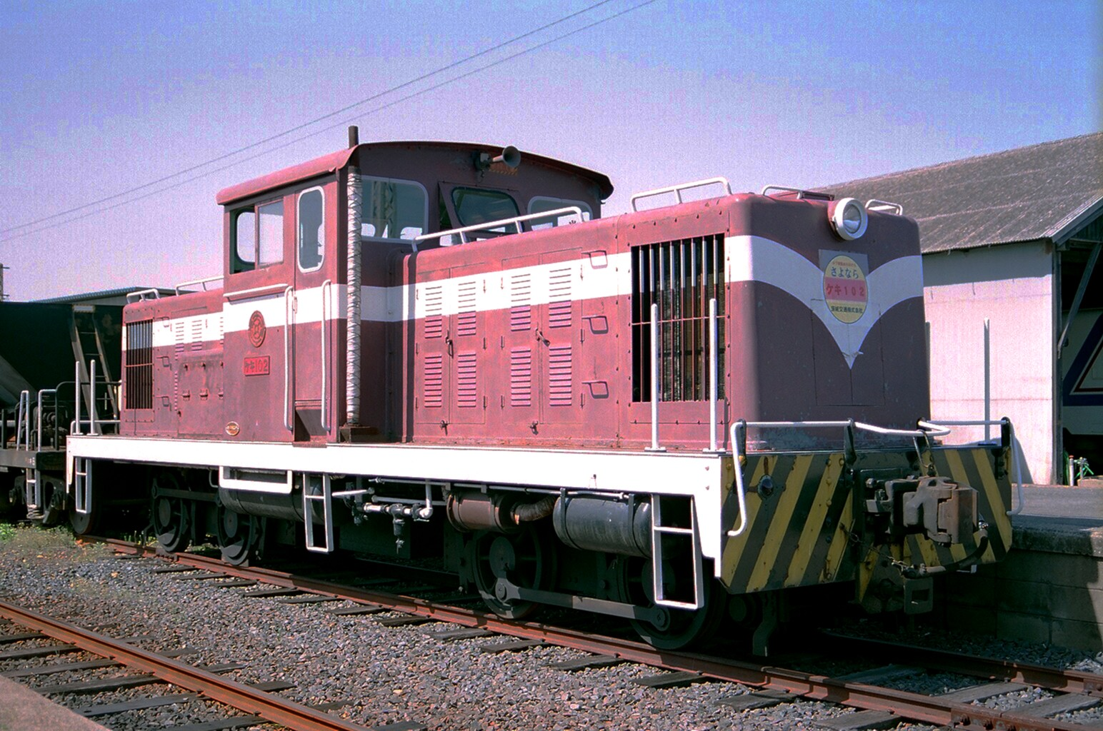 Ibaraki Kōtsū Minato Line Keki102 Diesel locomotive (Japan).